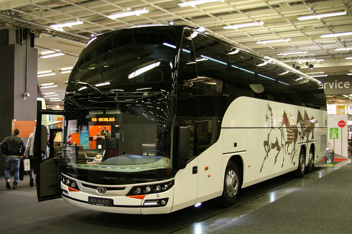 MAN Lion's Chassis CO 26.480 with Beulas Glory bodywork at Persontrafik 2012.